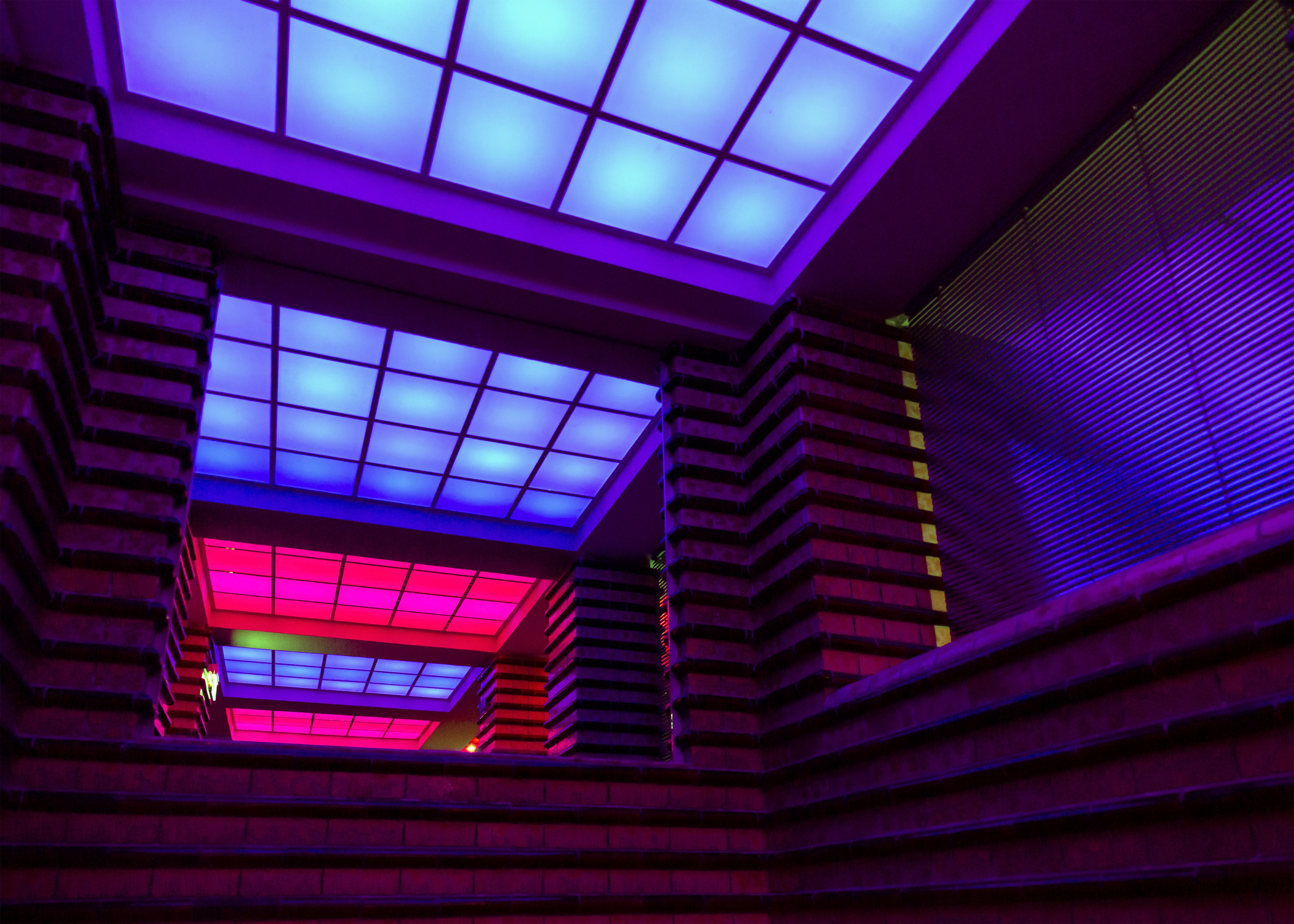 Rabenhof Theater in Vienna, Austria.